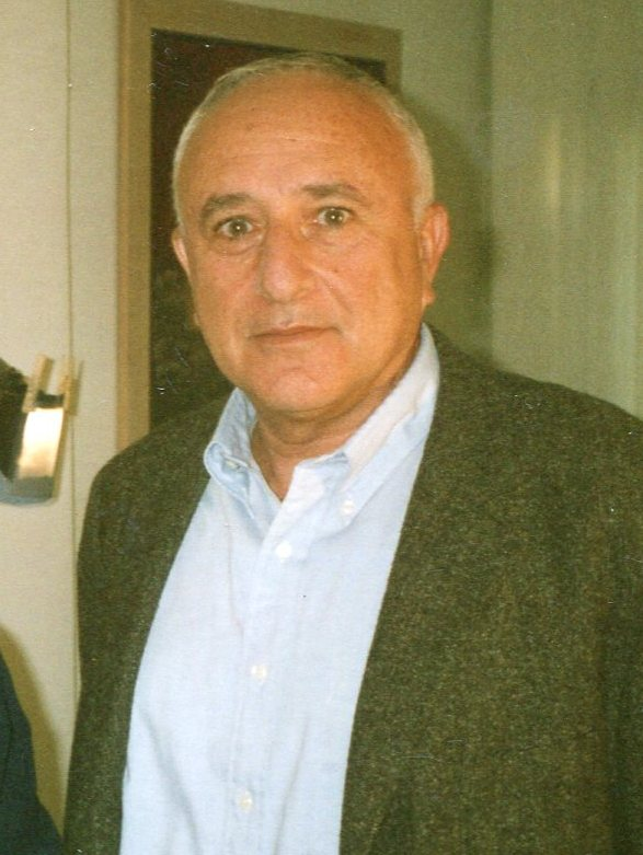 Amnon Lipkin-Shahak